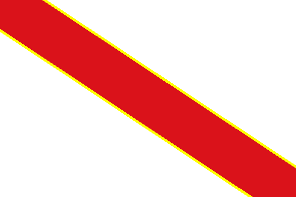 Flag of municipality of Hélécine